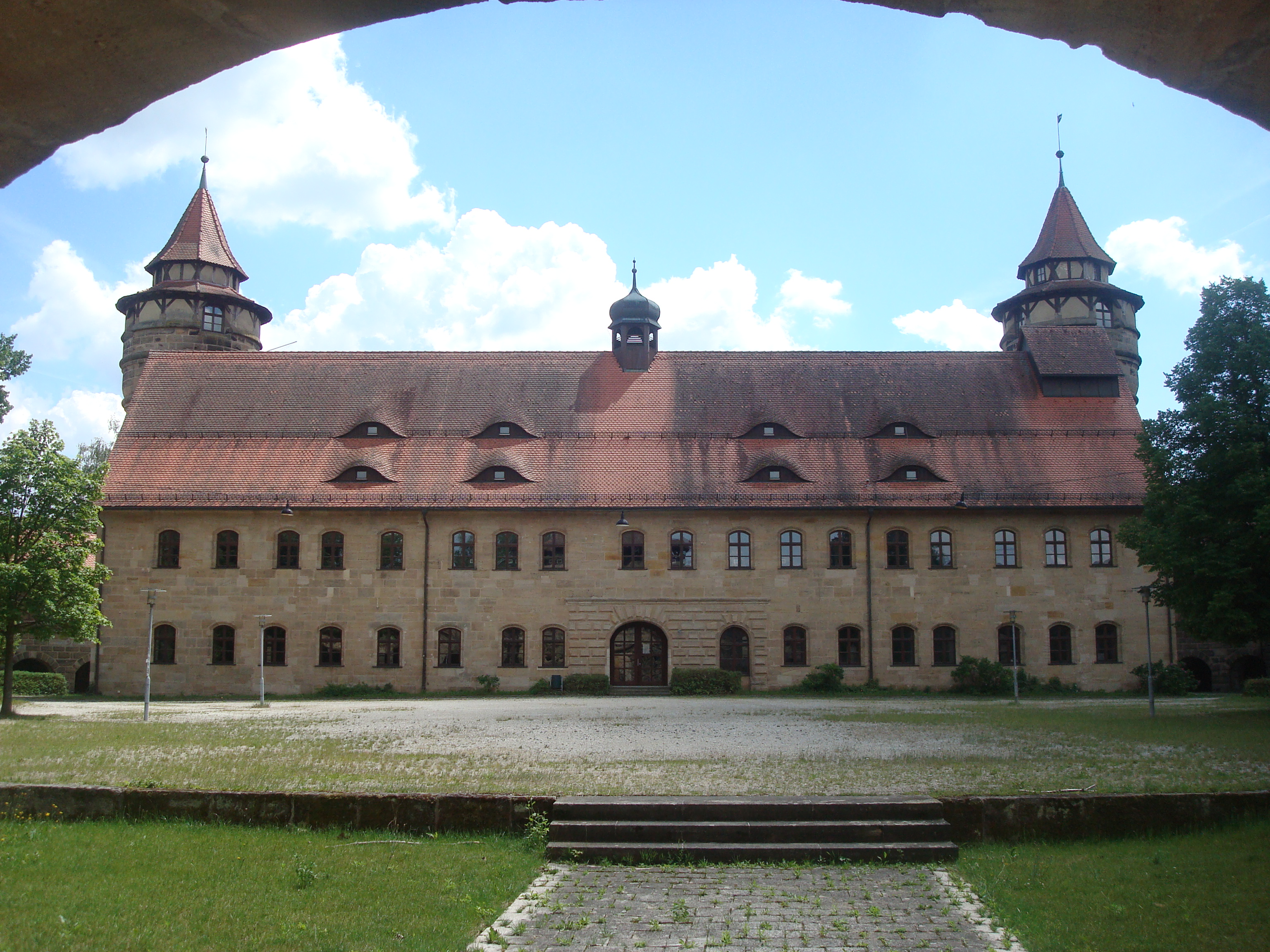 Lichtenau near Ansbach (Mittelfranken), Fort, north facade of the palace building, designed by Antonio Fazuni, 1558-1630